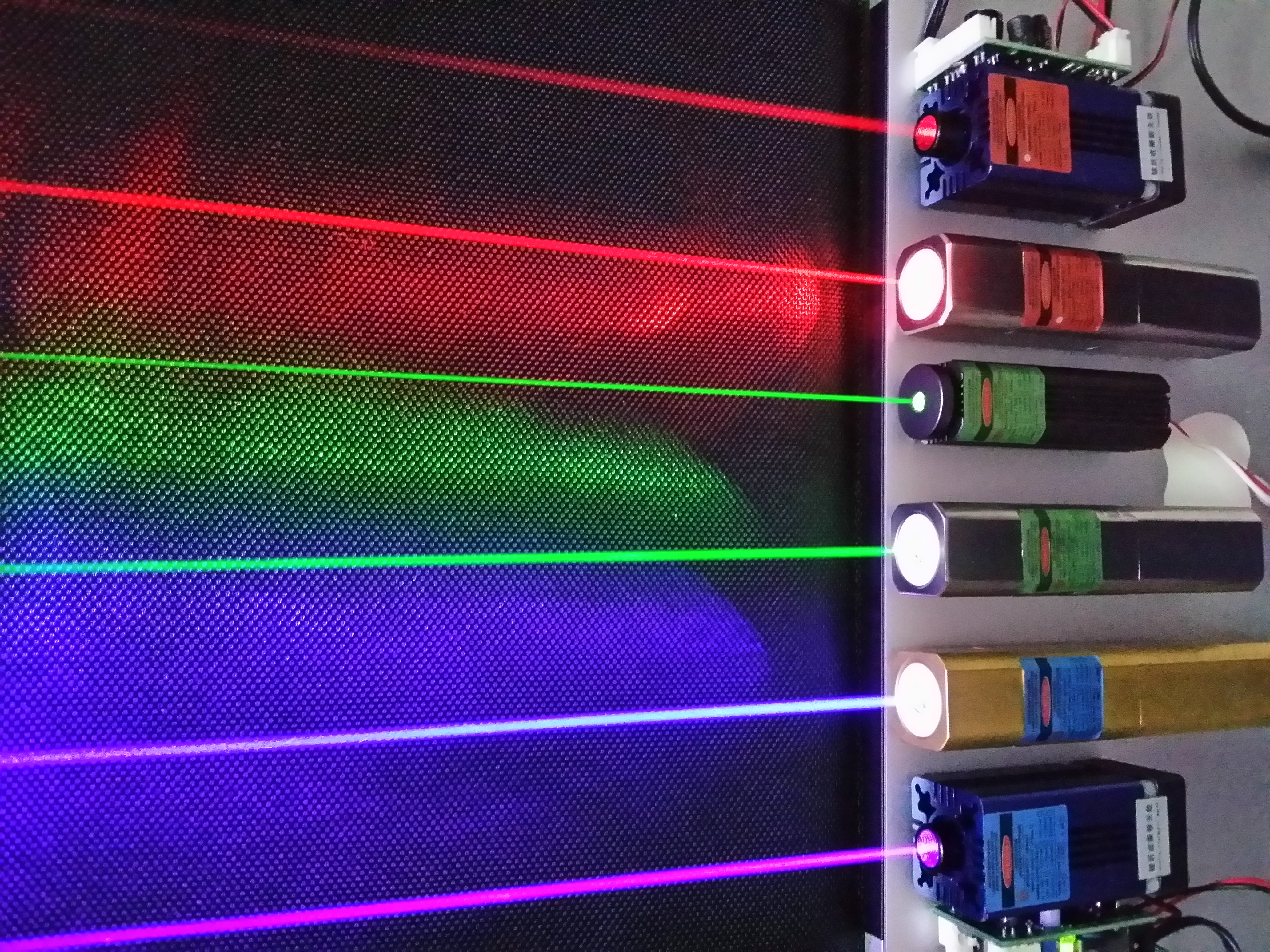 Six commercial lasers in operation, showing the range of different colored light beams that can be produced, from red to violet. From the top, the wavelengths of light are: 660nm, 635nm, 532nm, 520nm, 445nm, and 405nm. Manufactured by Q-line.